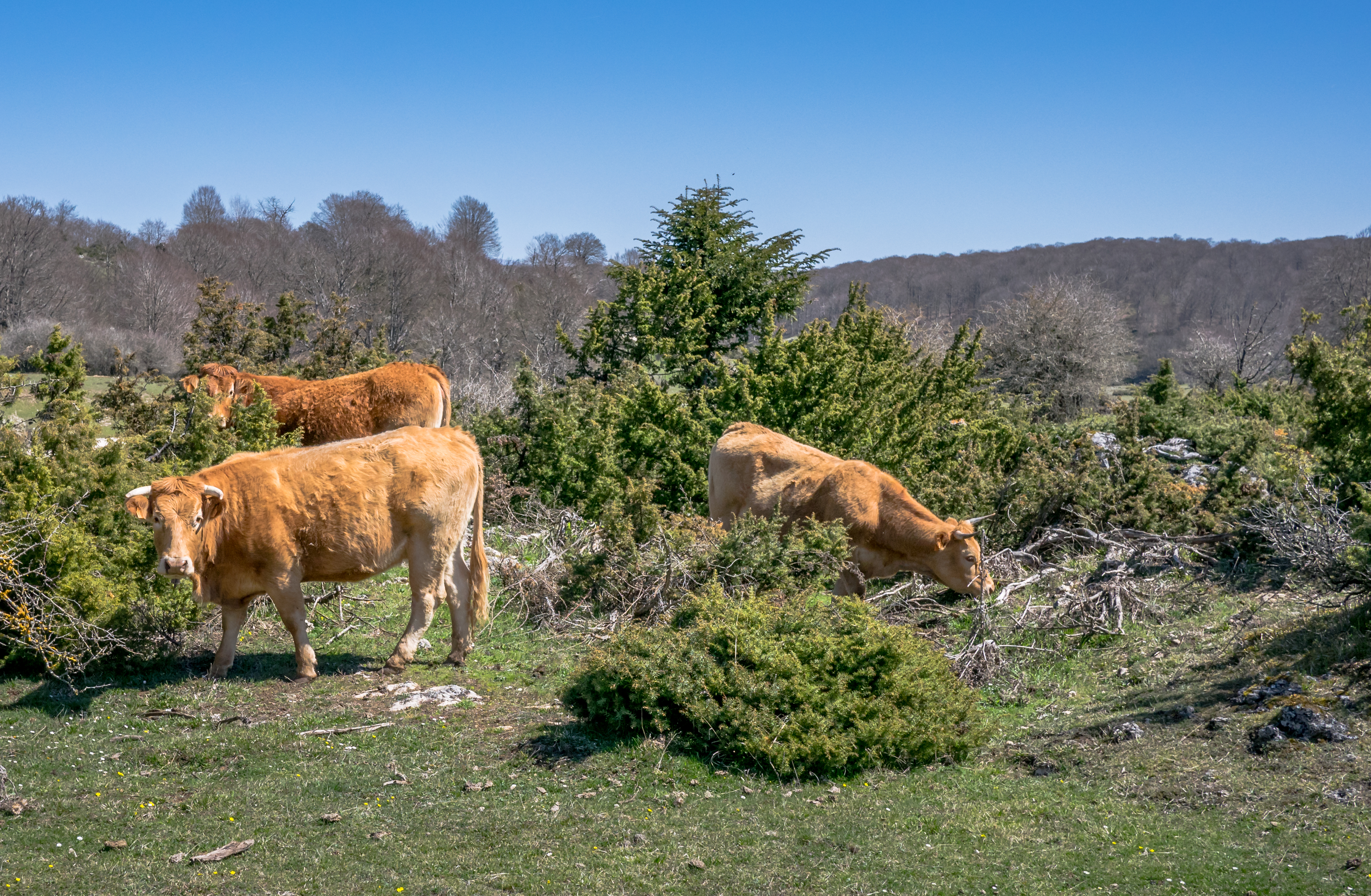 Cows in the Entzia mountain range. Navarre, Spain